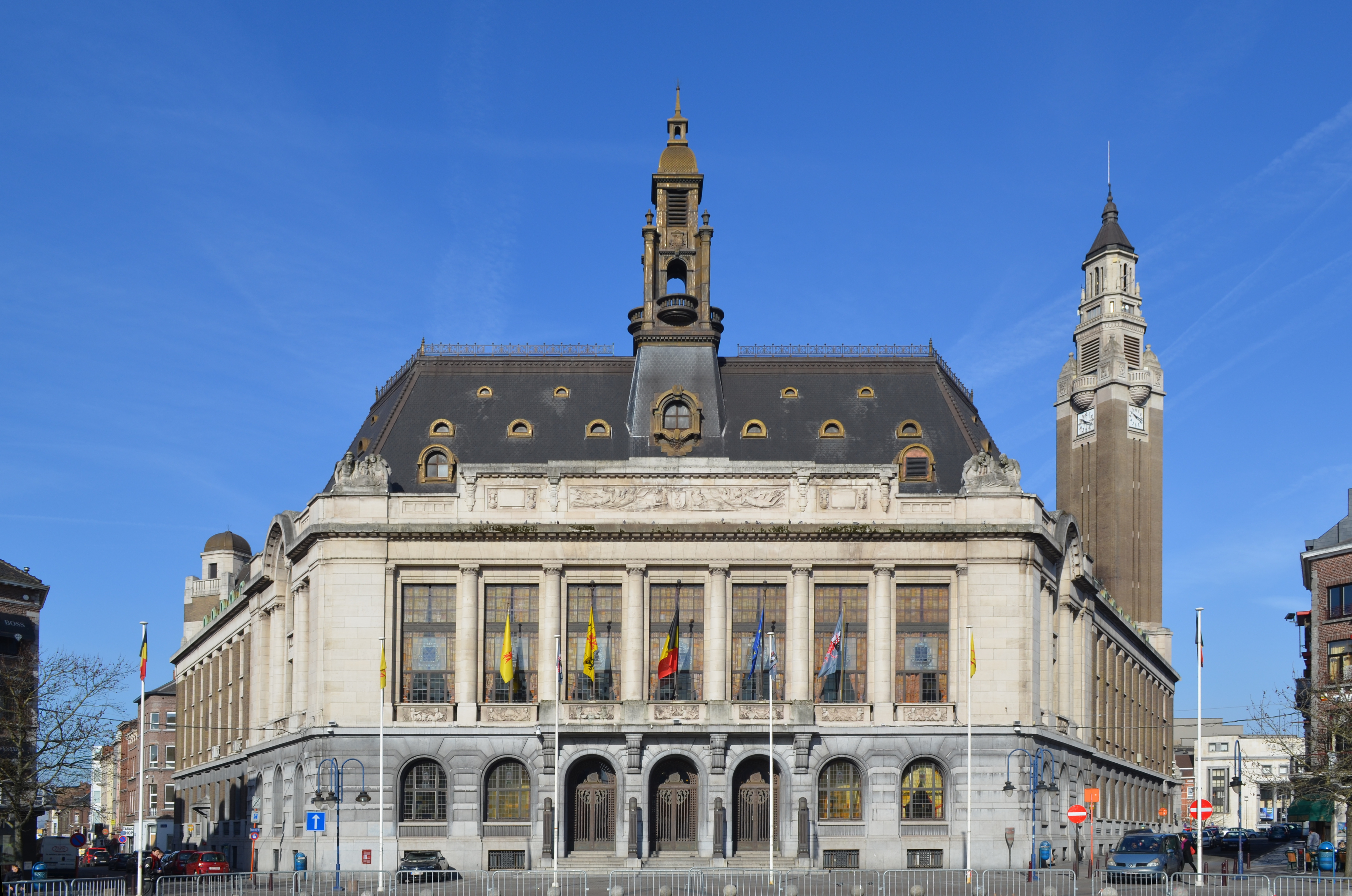 Town hall and belfry of Charleroi - vue from the Charles II Square